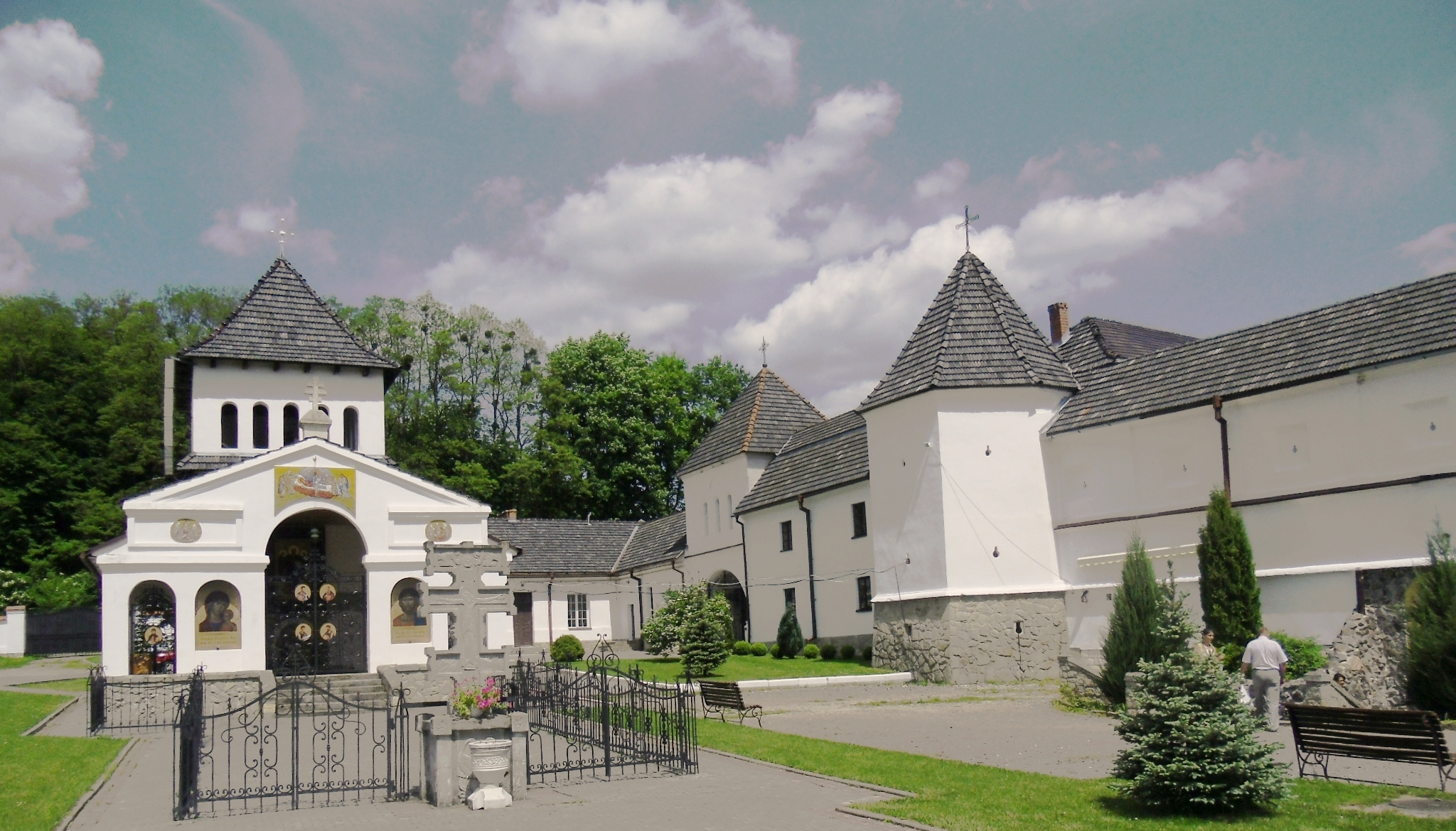 Univ Holy Dormition Lavra of the Studite Rite. Peremyshliany Raion. View of the Univ Lavra.